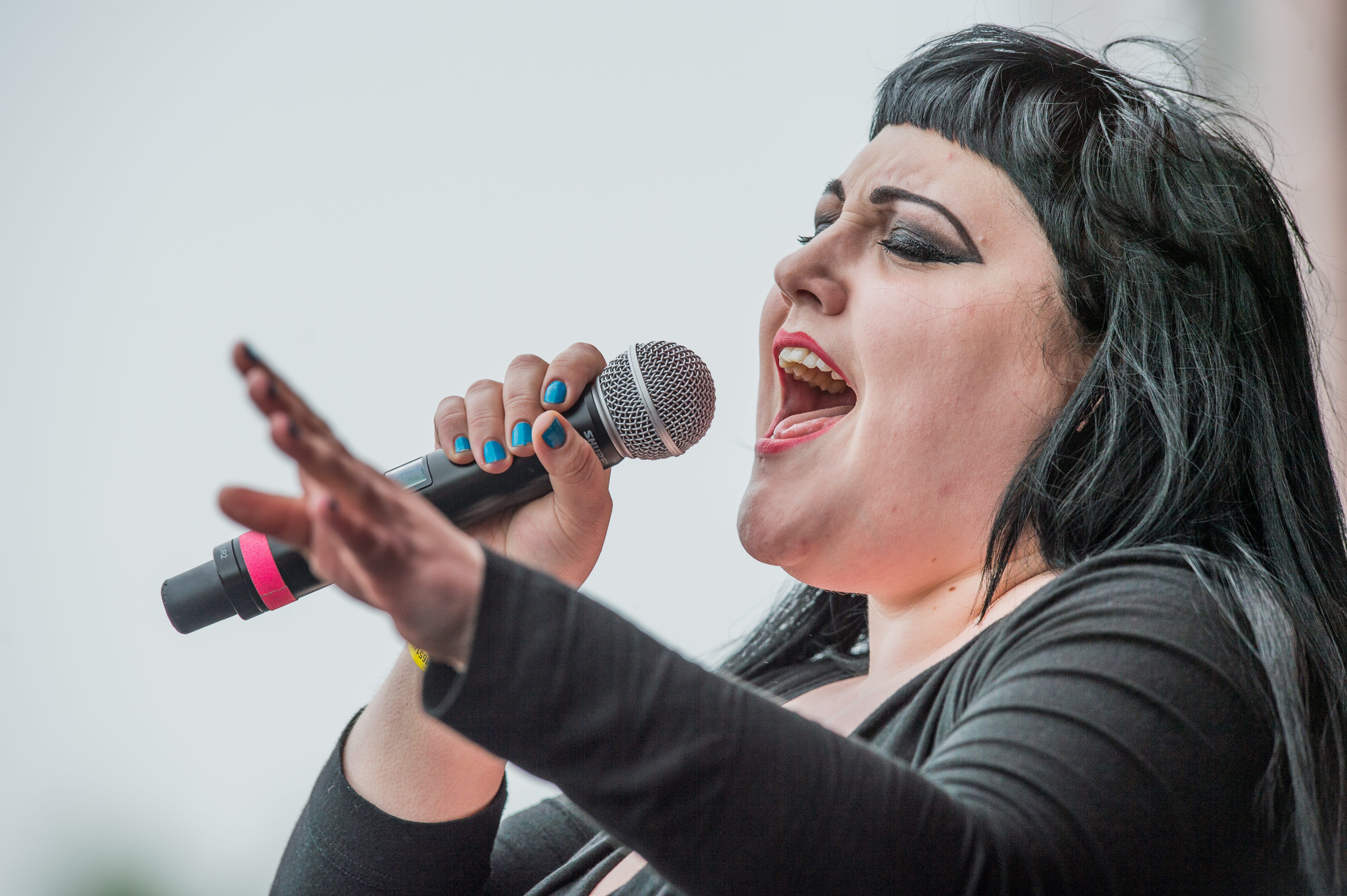 Beth Ditto performing for Gossip at Roskilde Festival 2012.